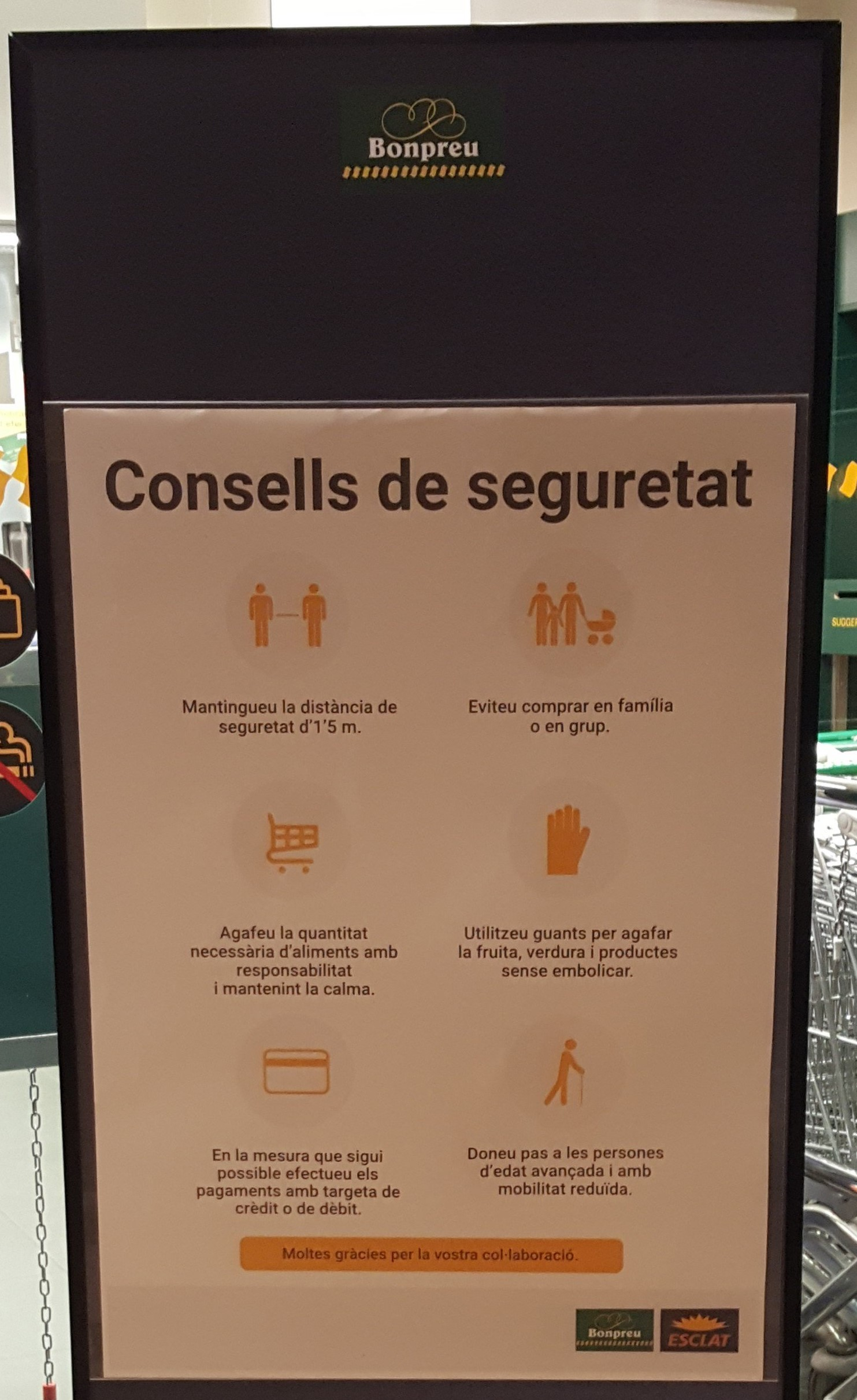 Health advice (Covid-19) inside a Bonpreu supermarket